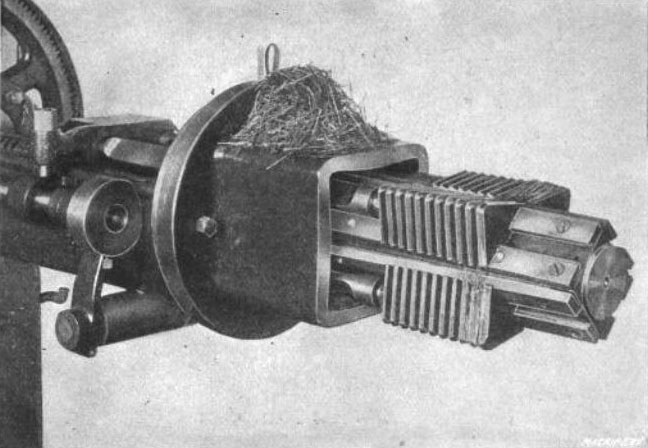 A modular broach installed in the broaching machine with the workpiece. The original caption is: "Fig 21. The Taper Broach used for Broaching the Steel Casting shown in Fig. 22".